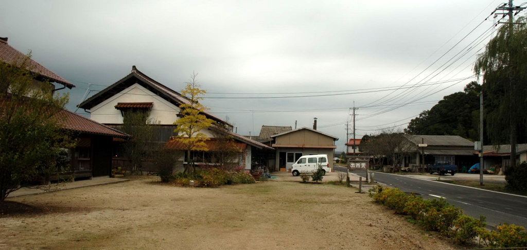 Scenery of Shussai